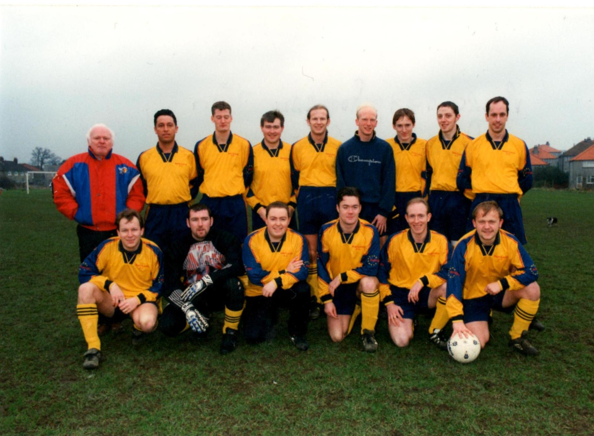 Photo from Barclays (Isle of Man) Football Club (now Douglas & District FC) from 1/2/97, Woods Cup match in debut season v Union Mills. Photo given to club by Isle of Man Newspapers reporter Paul Hatton, photo from report by James Davis. Posted by club secretary Dave Mathieson (2013).